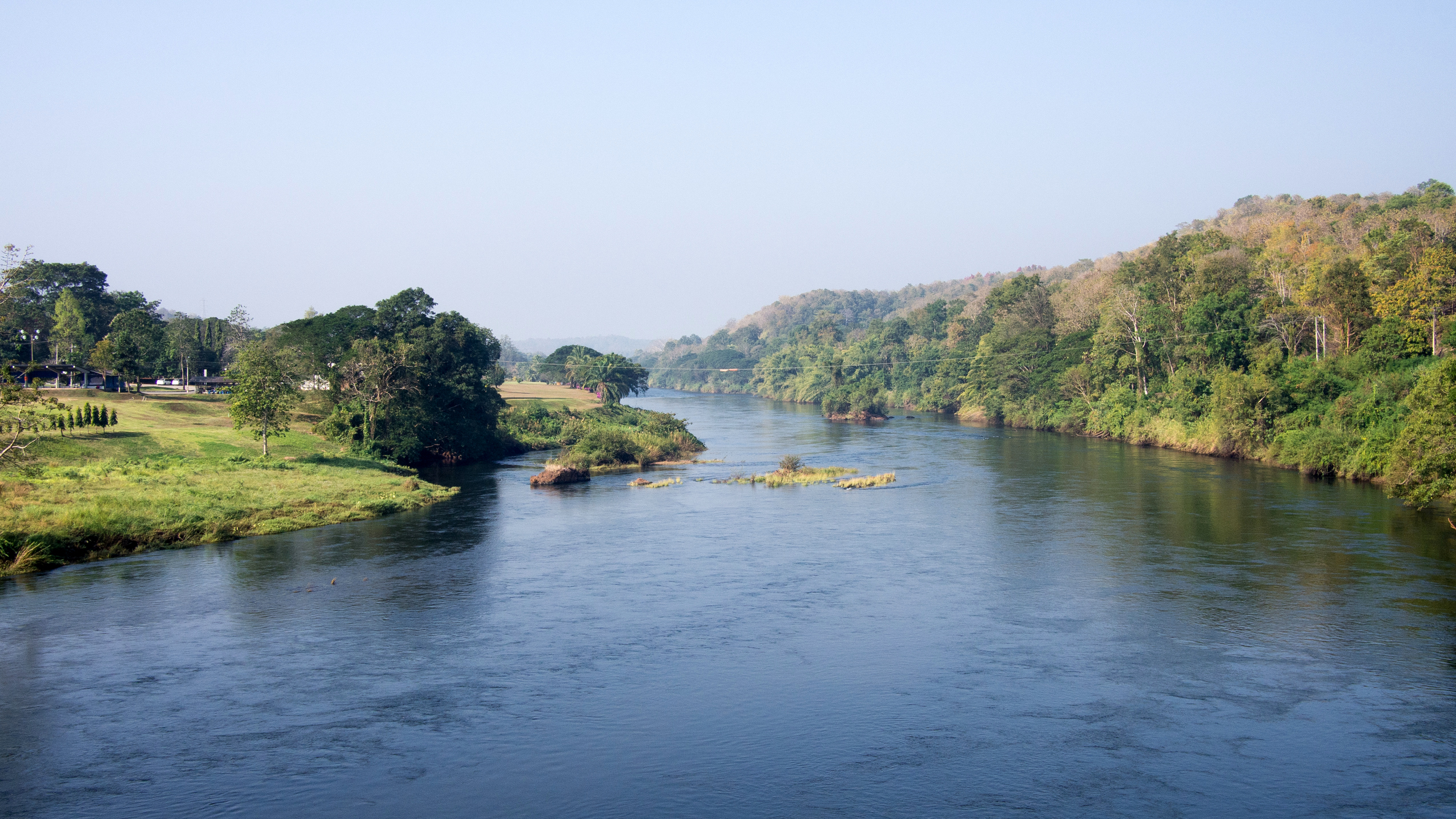 The Nan river just after the Sirikit Dam inside Uttaradit Province in Tha Pla District.